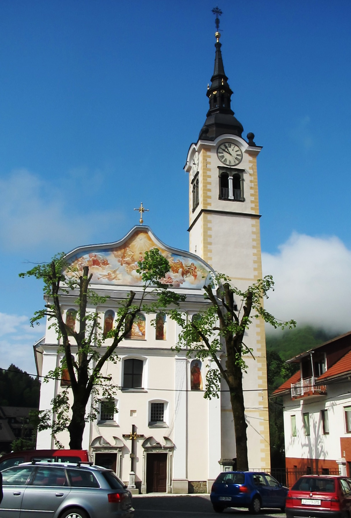 Church of Saint Anne in Cerkno, Slovenia.